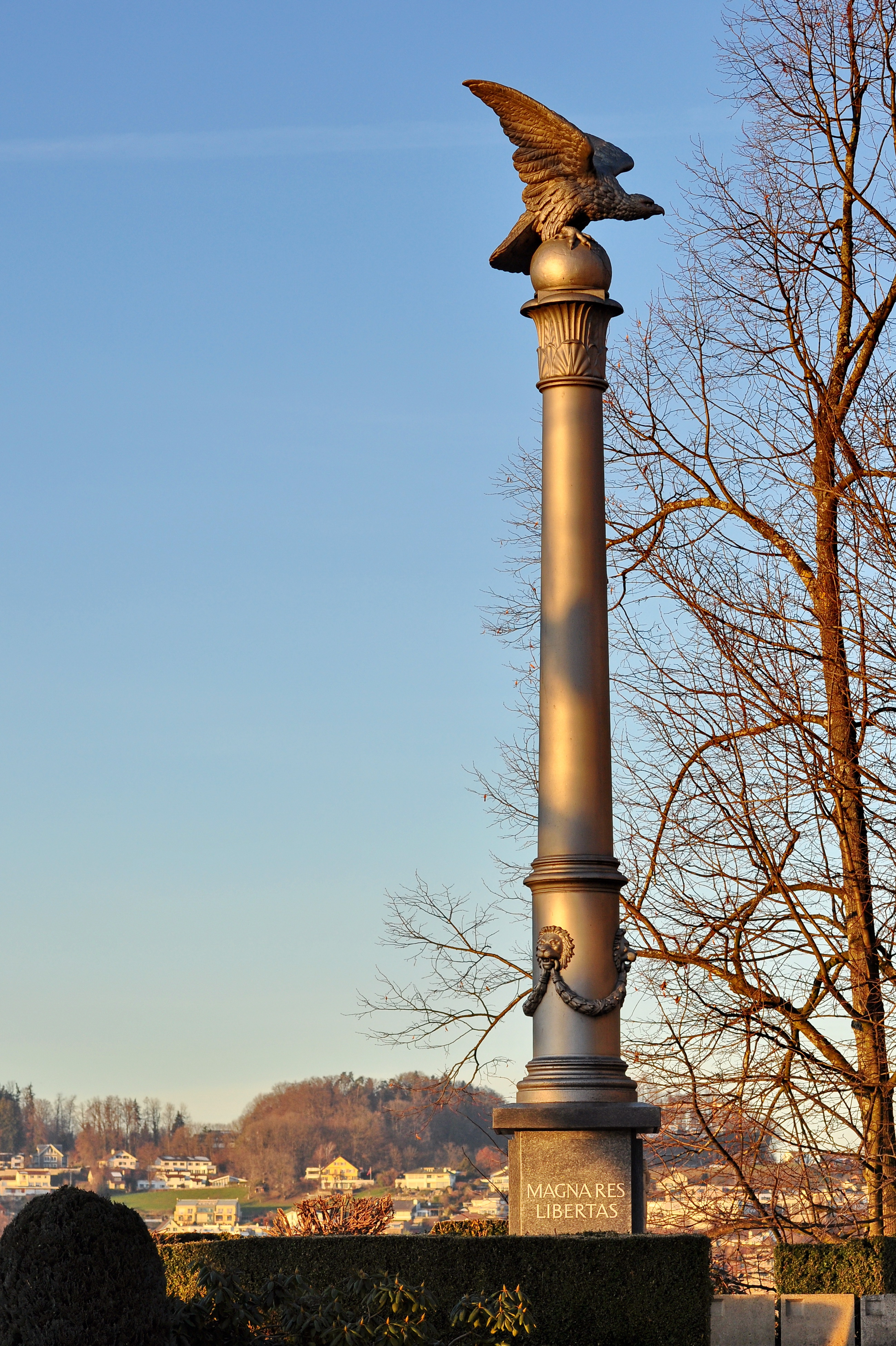 Polnische Freiheitssäule in Rapperswil (SG) on the eastern side of Rapperswil castle